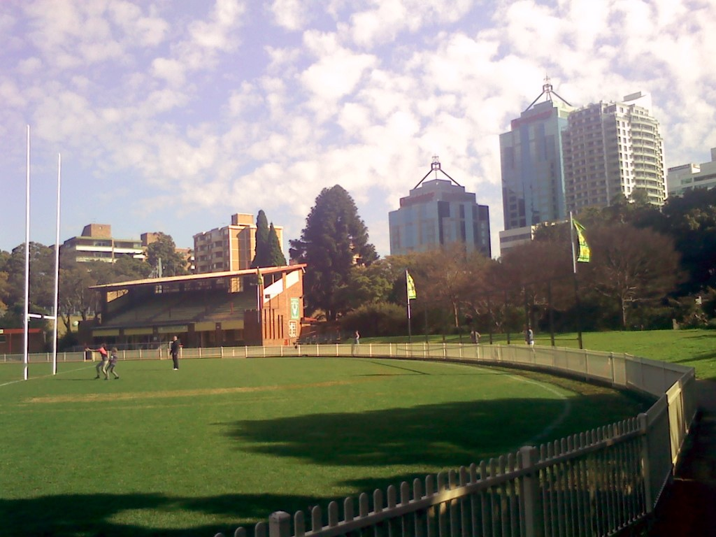 Chatswood oval, Sunday morning. Trumper Pavilion and Chatswood high rise in shot